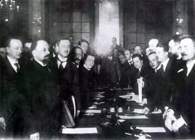 Signing of Soviet-Polish Peace Treaty document, Riga 18.03.1921.